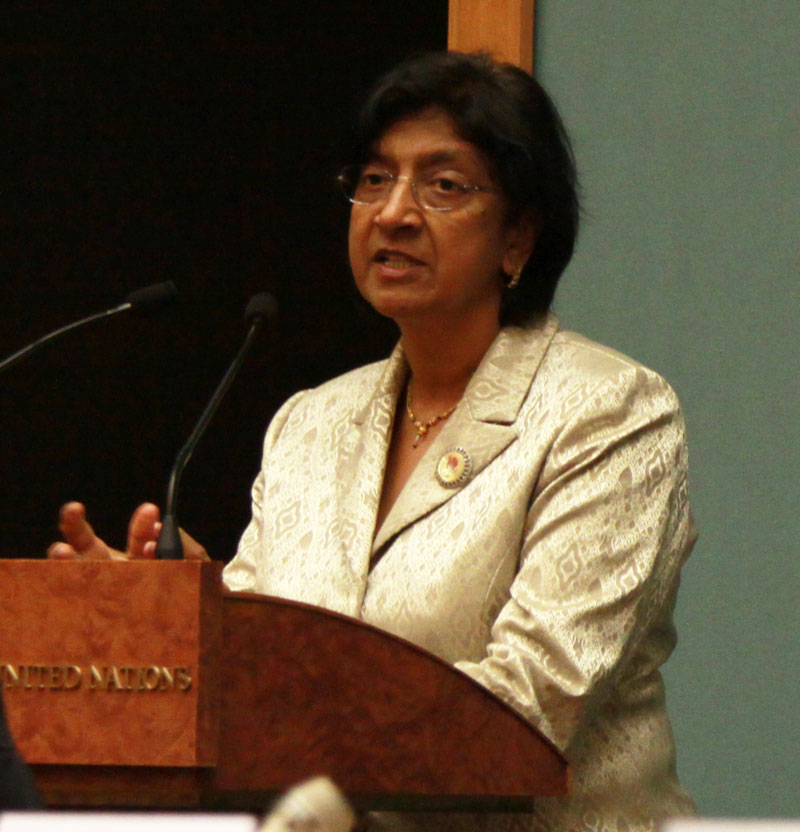 The Permanent Mission of the United States of America, the Permanent Mission of South Africa, and the Office of the High Commissioner for Human Rights hosted a screening of the movie Invictus, to observe the International Day for the Elimination of Racial Discrimination. The theme for this year “Disqualify Racism” draws attention to the interface between racism and sport. Brief introductory remarks were made by the High Commissioner for Human Rights, Ms. Navanethem Pillay, the Ambassador of South Africa Mr. Jerry Matthews Matjila and the Ambassador of the United States of America, Ms. Betty E. King. March 22, 2010 U.S. Mission Photo: Eric Bridiers